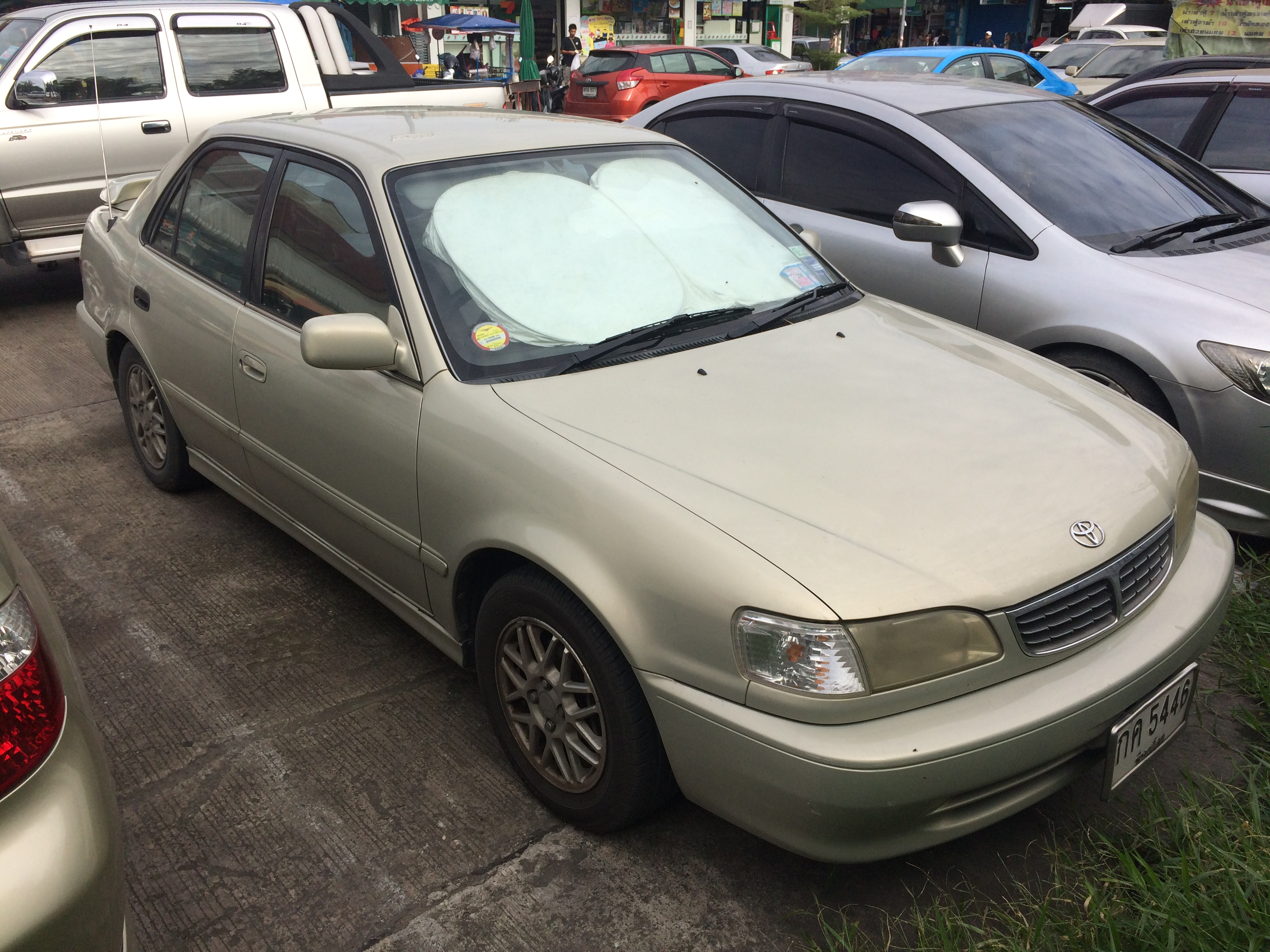 1998-1999 Toyota Corolla Altis (AE111) 1.6 SEG Sedan (19-08-2017) in Bangkhen Bangkok Thailand.